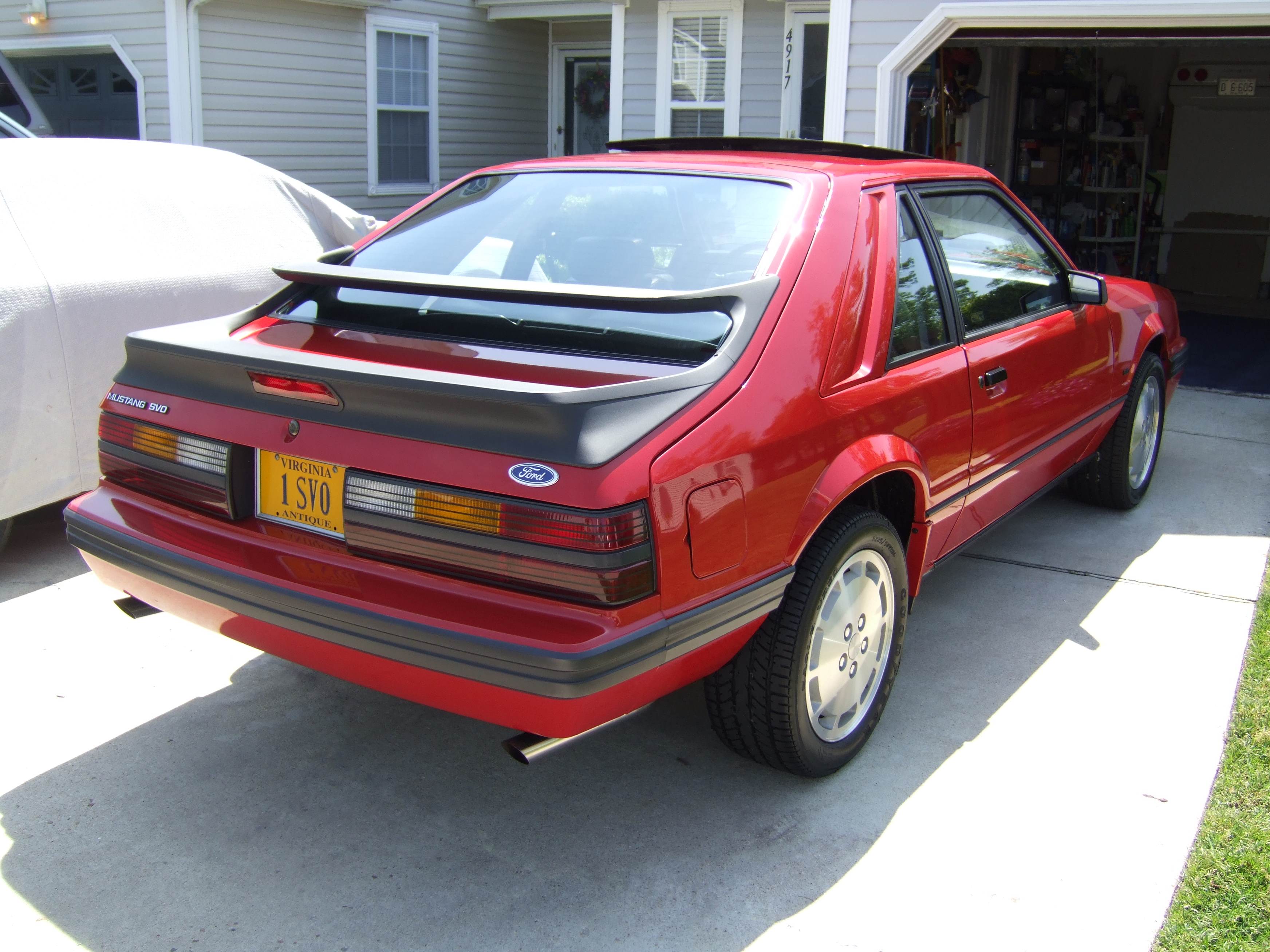 My 86 SVO with 1,500 miles